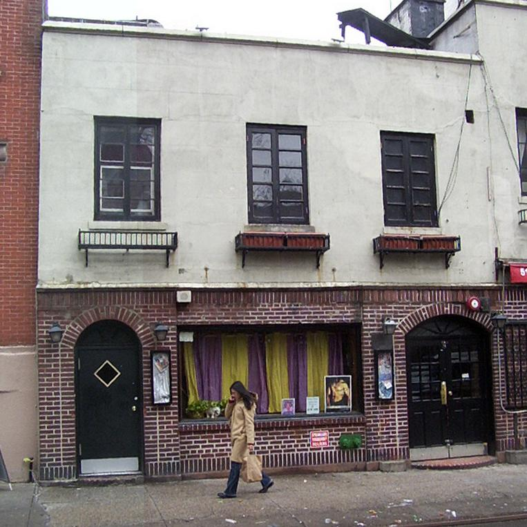 Stonewall Inn, Christopher Street, New York City.